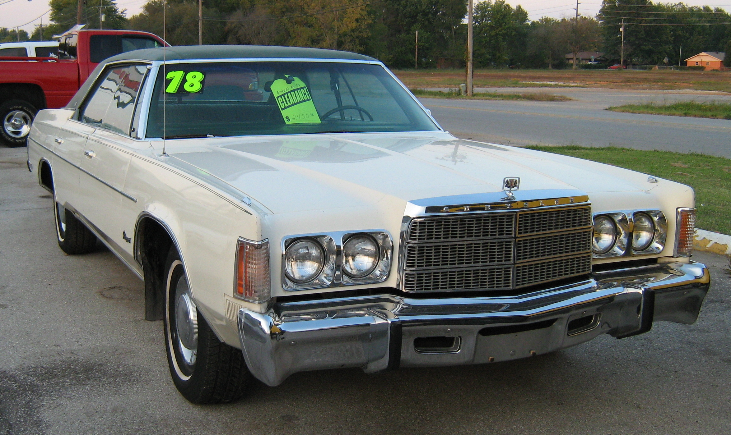 1978 Chrysler Newport 4-door hardtop - front view